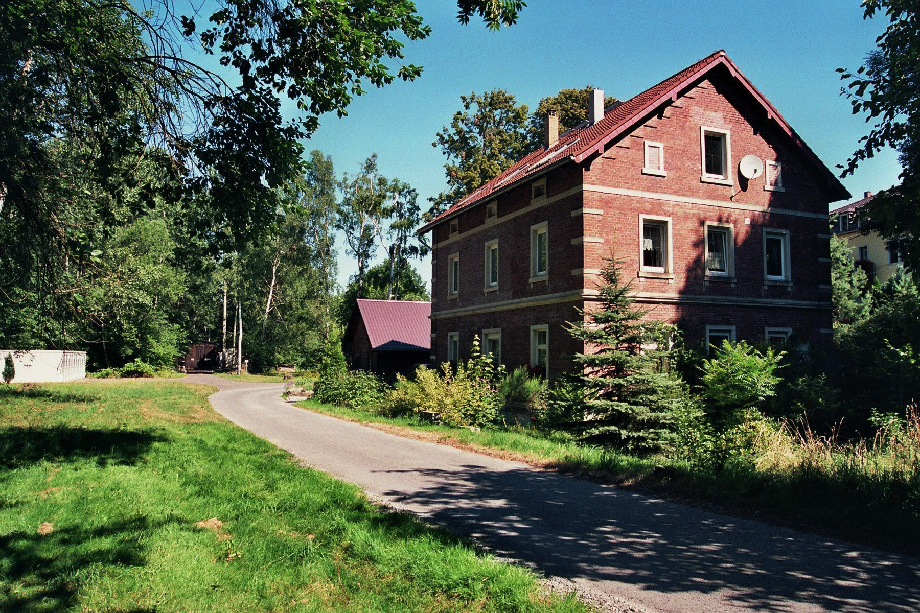 This image shows the former station in Cotta (railway-line Pirna-Großcotta).